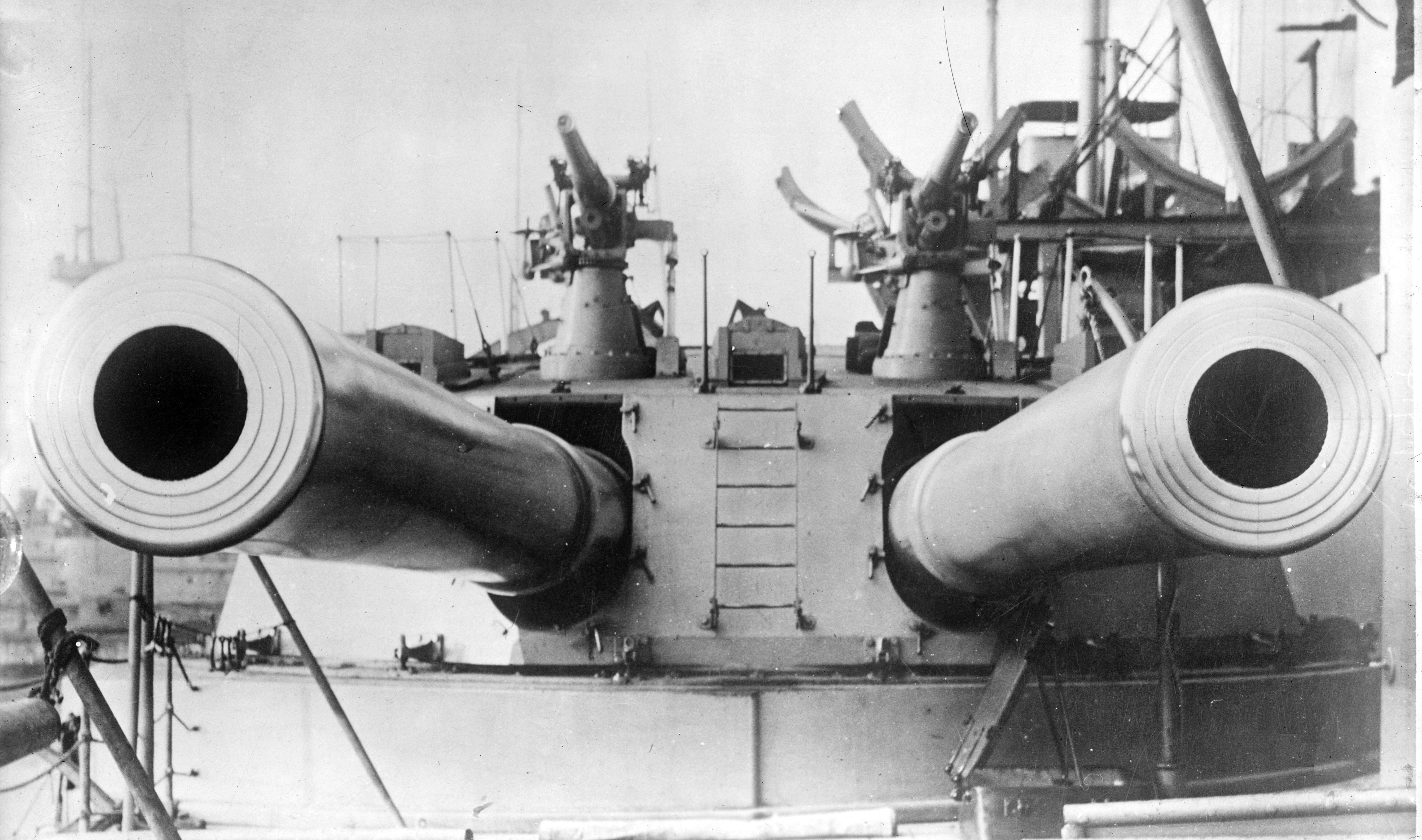 Pair of 12 inch guns on HMS Dreadnought. 2 QF 12 pounder 18 cwt anti-torpedo boat guns are mounted on the turret roof.